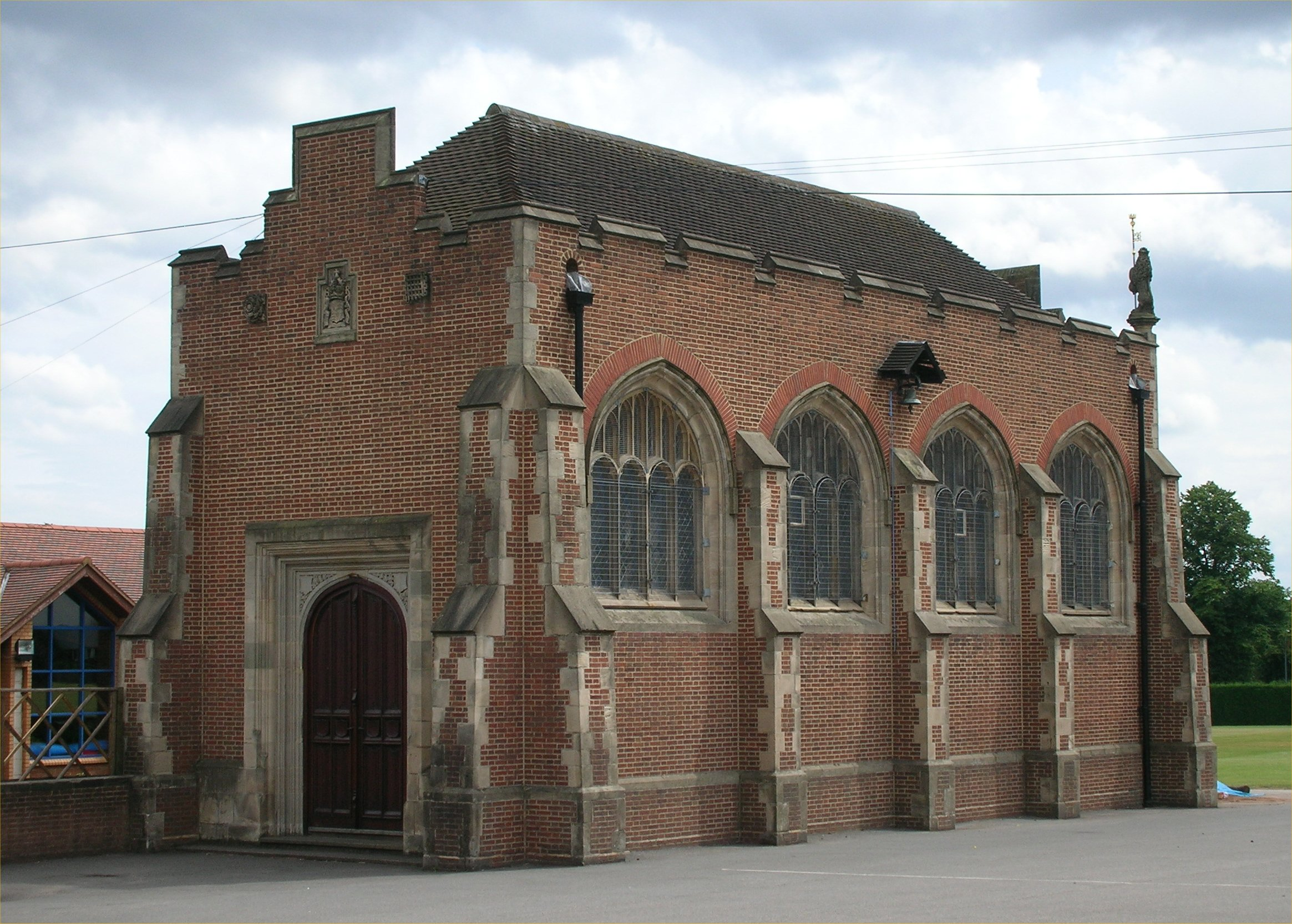 The Grade II* listed chapel of King Edward's School, Birmingham, England. Photographed by me, 8 July 2006. Oosoom